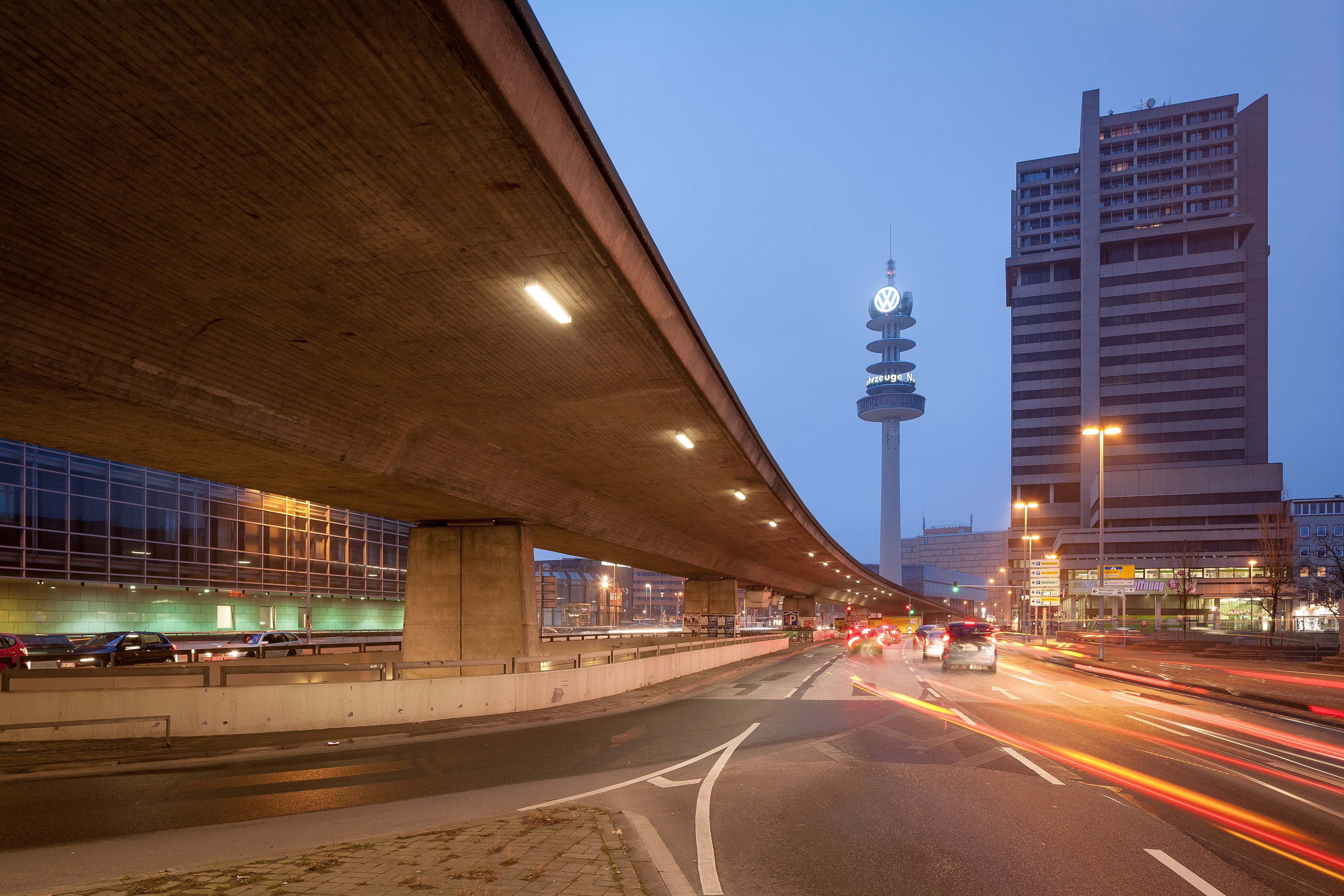 Raschplatz district in central Hanover, Germany. The elevated road is visible at the left side.